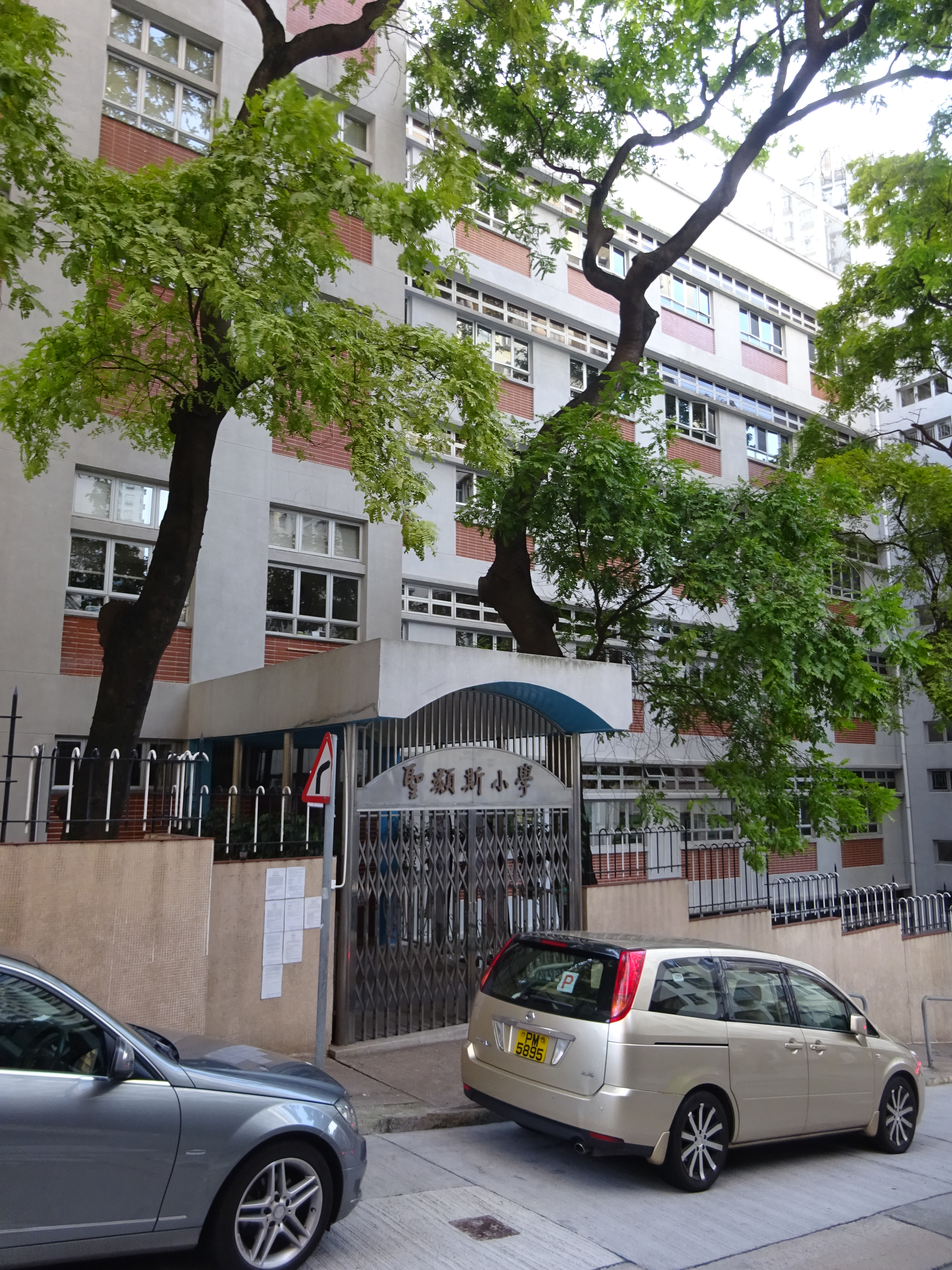 HK Sai Ying Pun 第三街 Third Street St Louis School